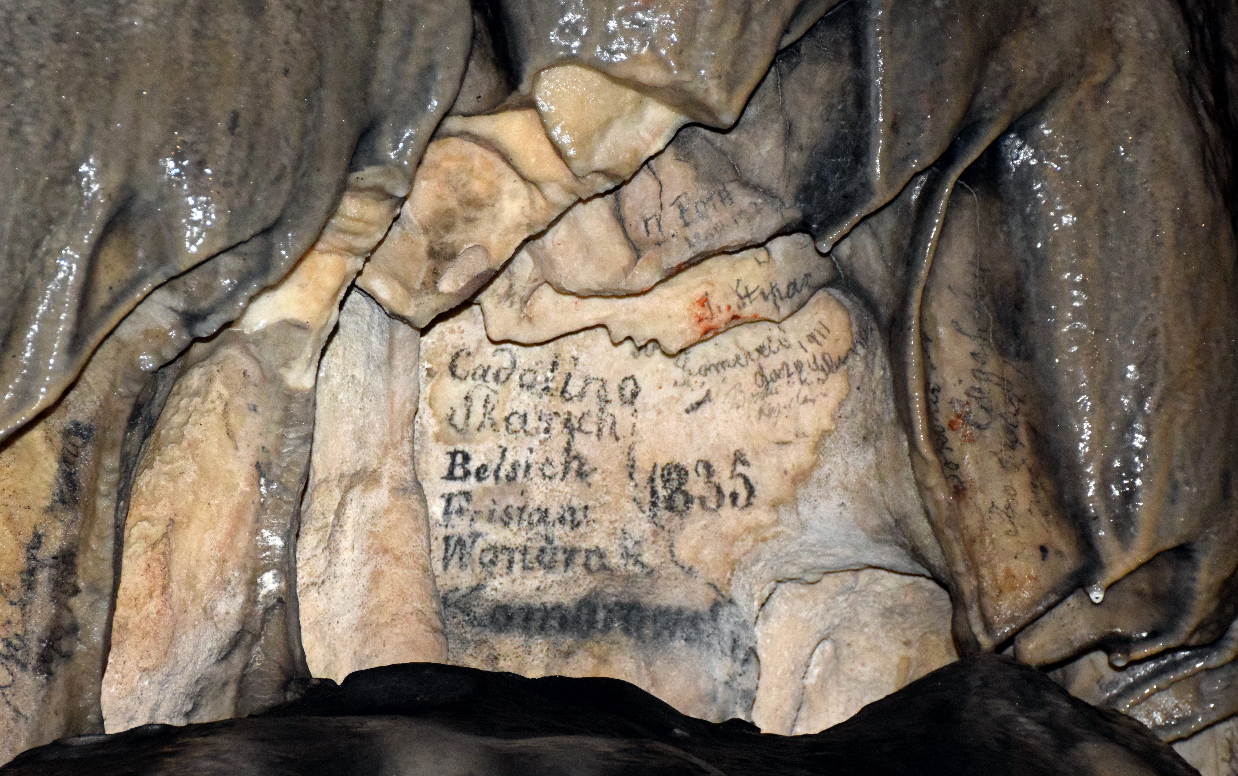 Austrian officers' signatures in cave Samograd, Croatia.